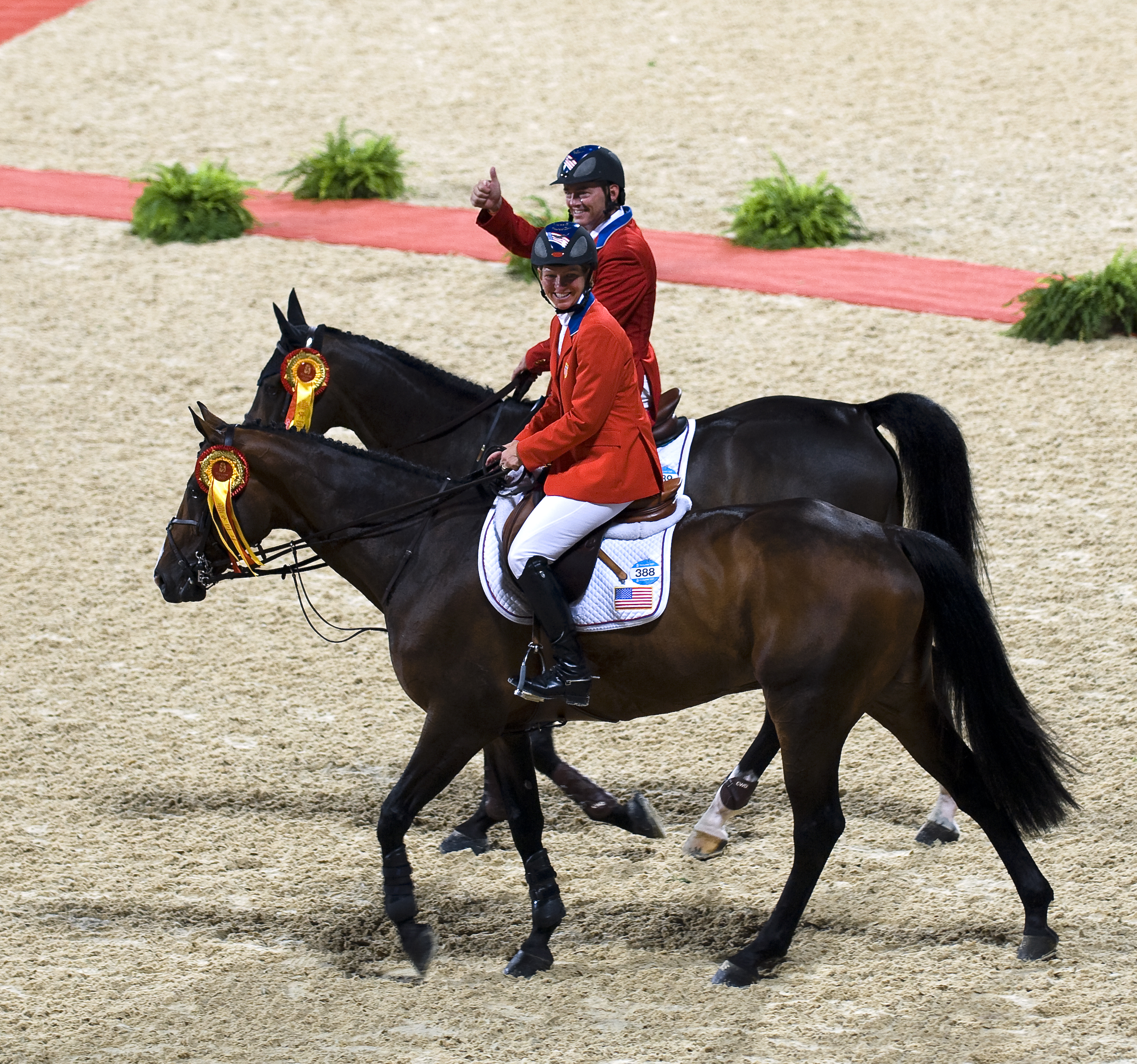 Beezie Madden on Authentic and Will Simpson on Carlsson vom Dach